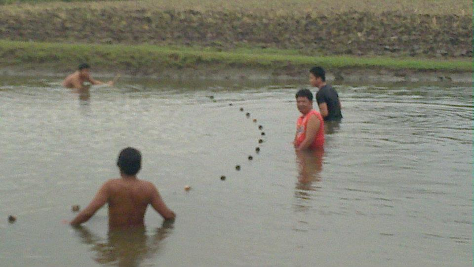 Fishing in brgy bantog